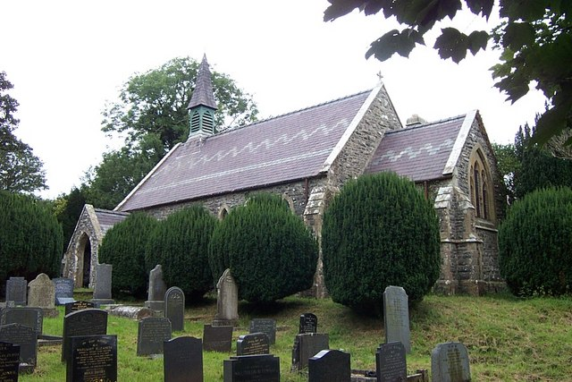 St John's parish church, Trofarth, Betws yn Rhos, Denbighshire, Wales, seen from the southeast